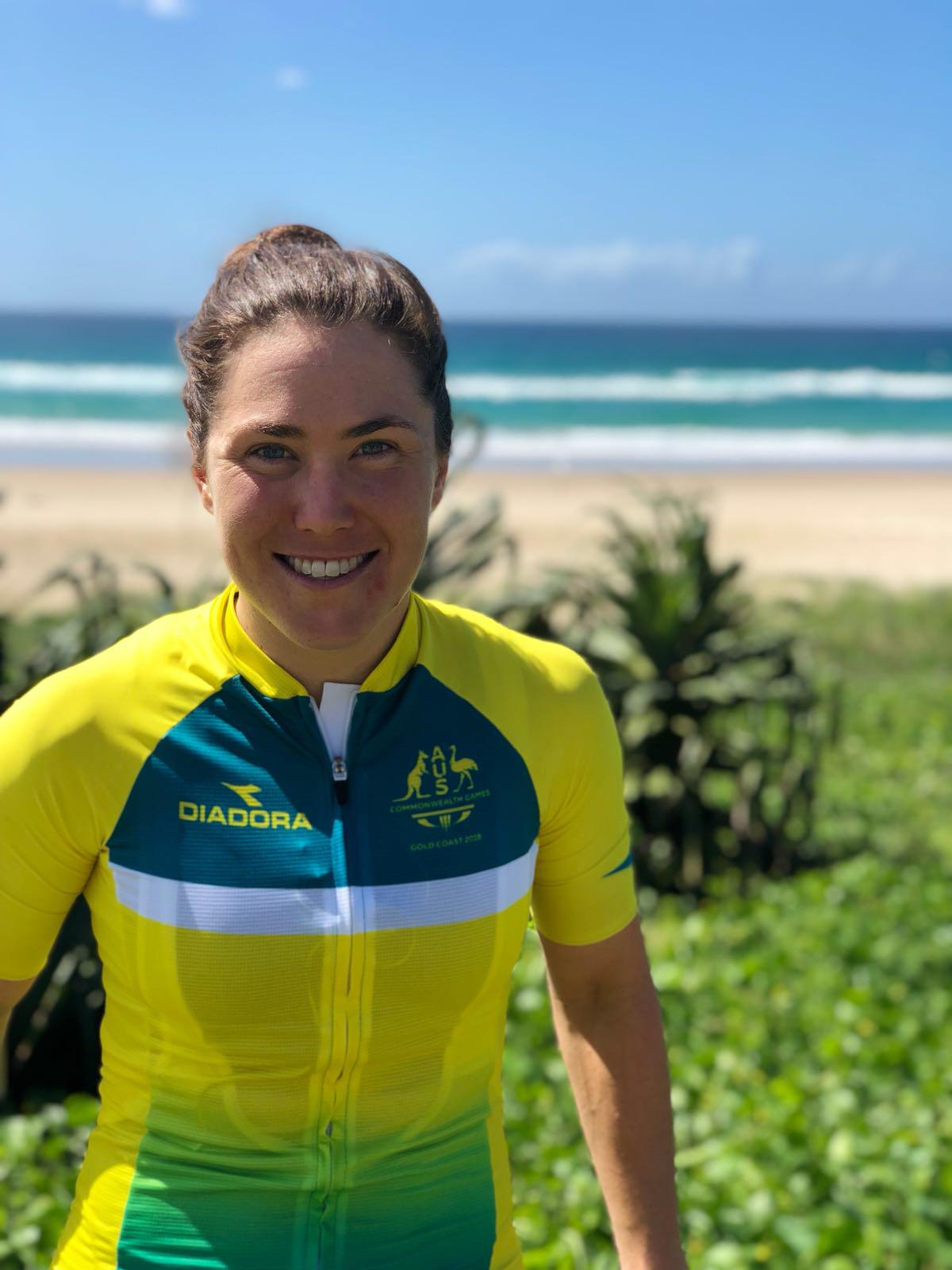 Chloe Hosking photo shoot prior to the 2018 Commonwealth Games Road Race.